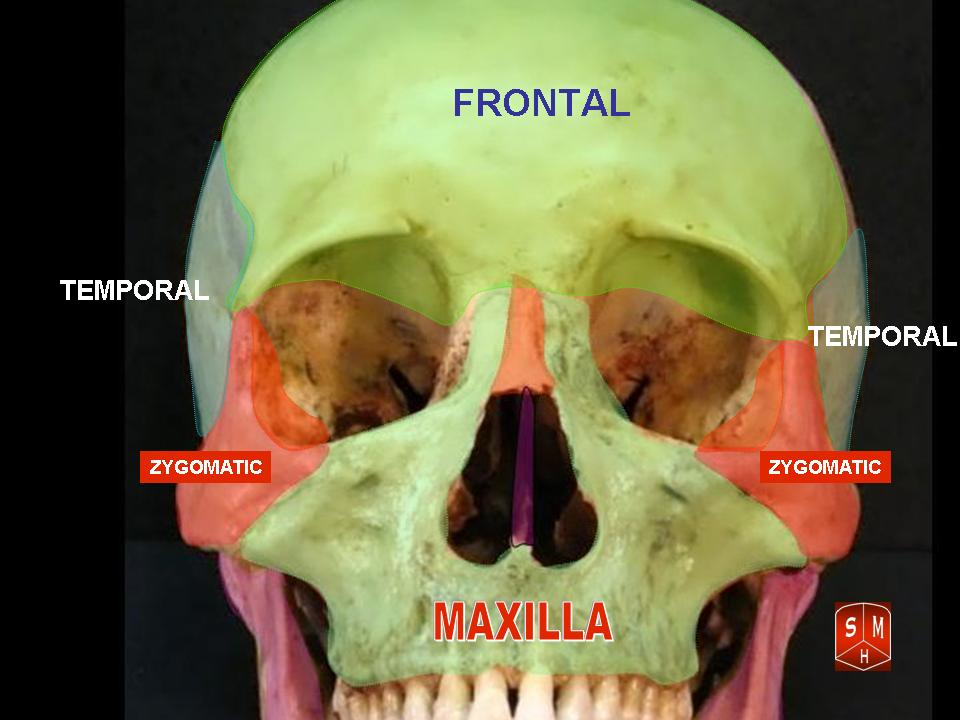 Frontal bone